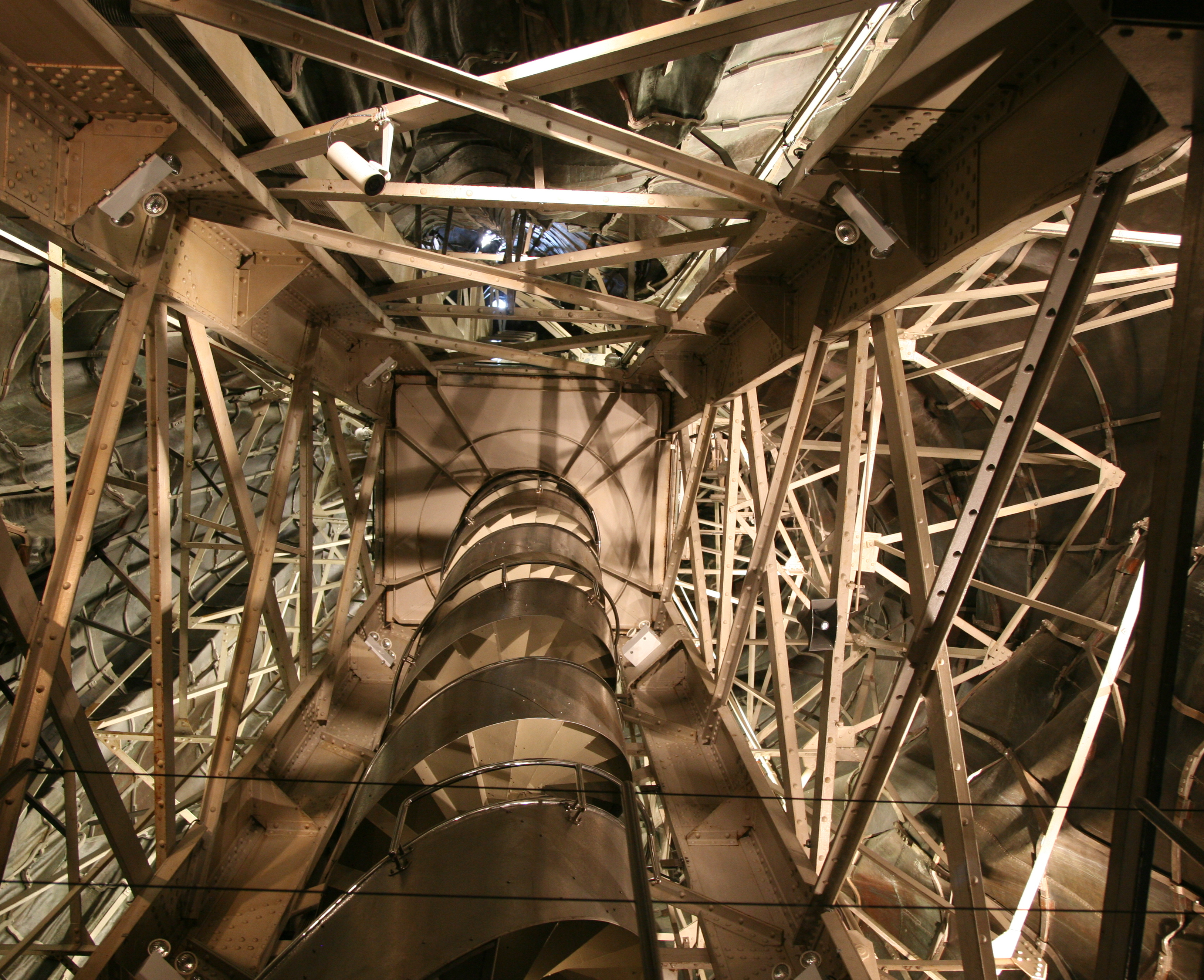 Interior view of the Statue of Liberty.